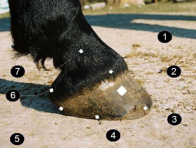 Horse hoof, lateral view, quoted Coronary band Walls Toe Quarter Heel Bulb P2 (short pastern)